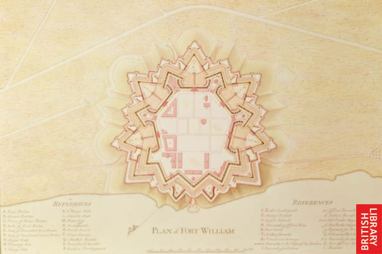 "Plan of Fort William, near Calcutta," c.1762-99* (BL) [*Ft. William plan*]